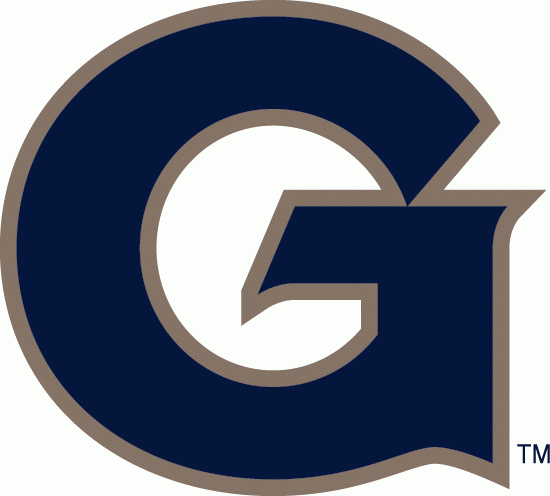 Logo for Georgetown University